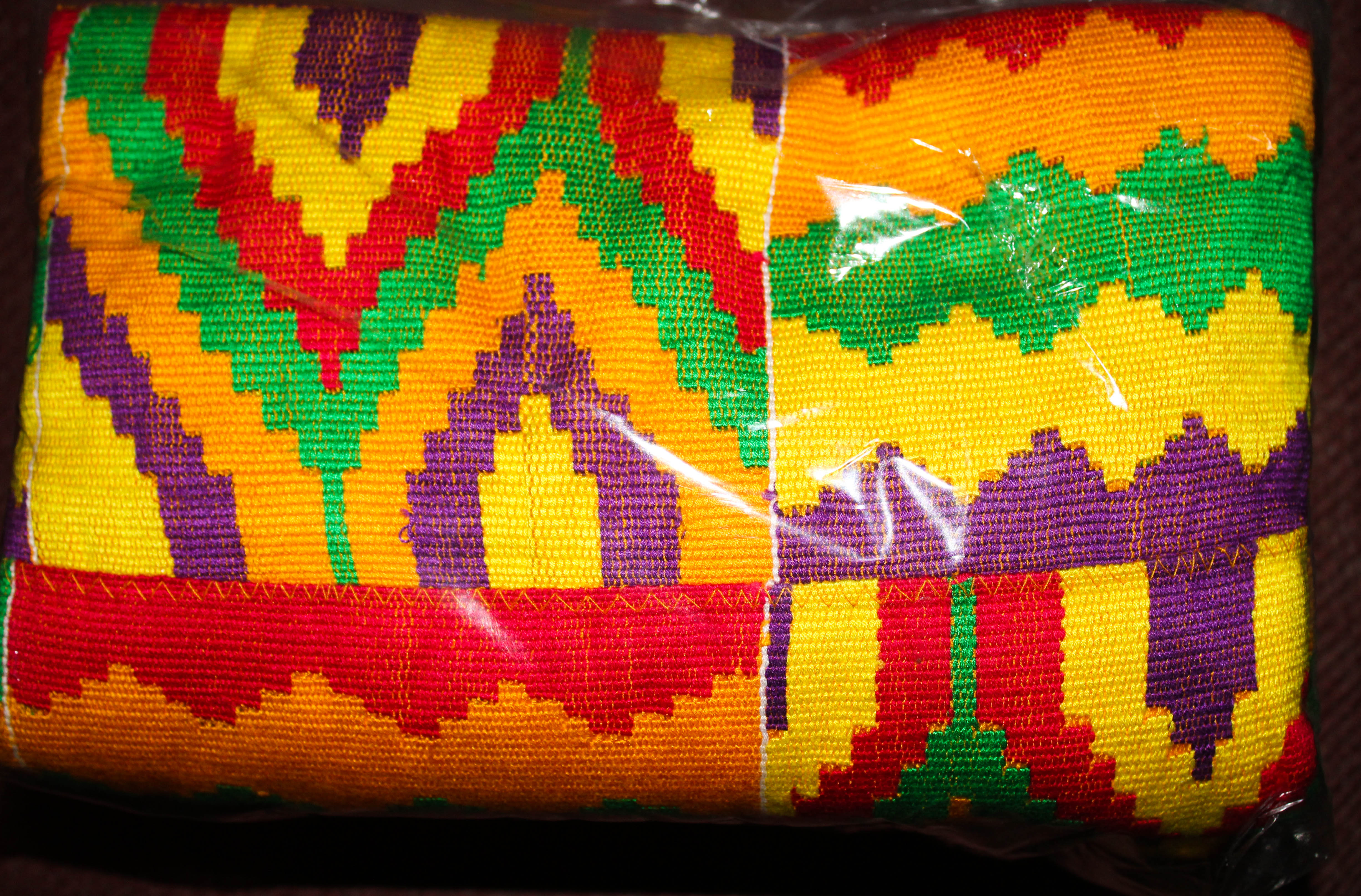 This is an image of Cultural Fashion or Adornment from Ghana